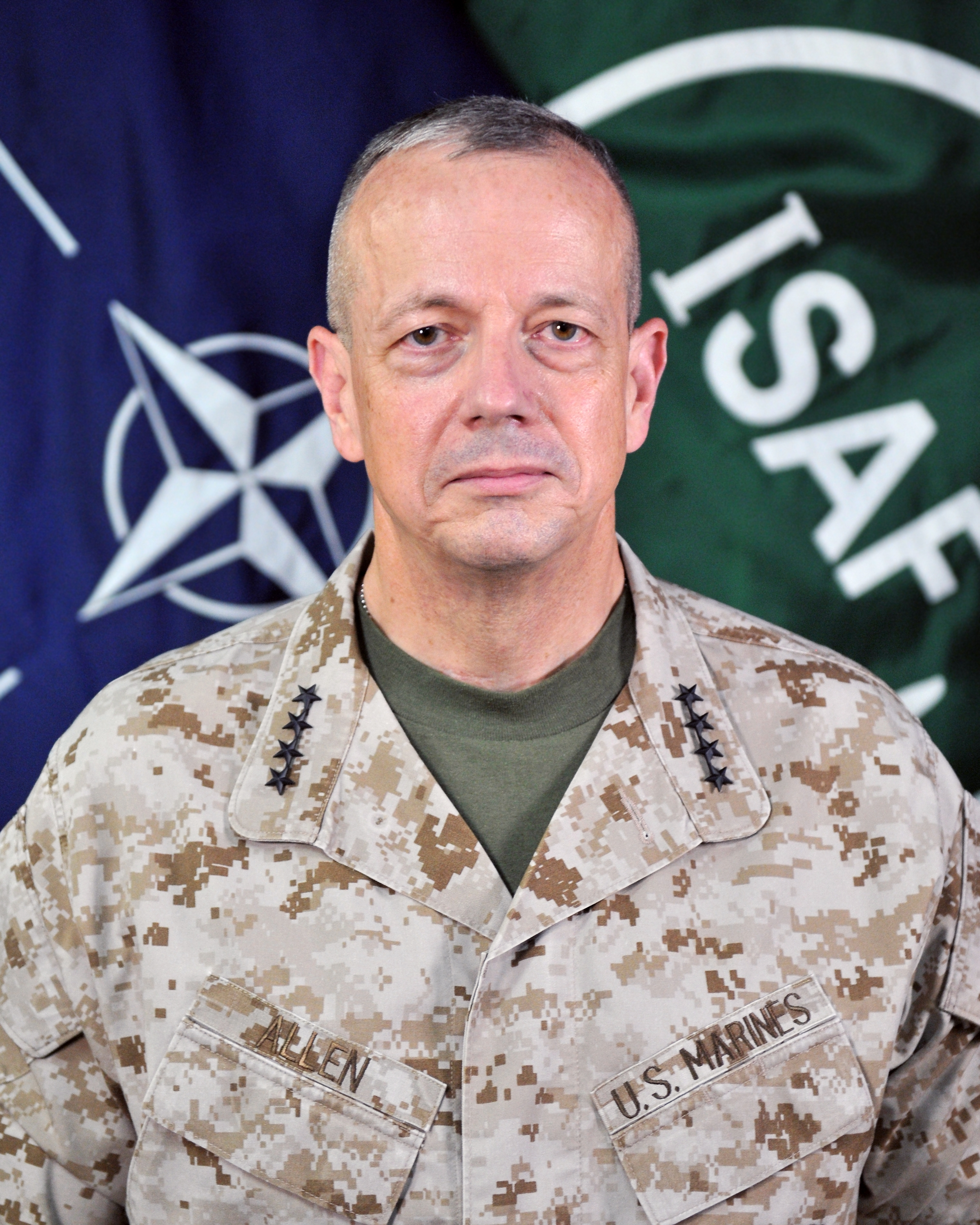 General John R. Allen, Commander ISAF